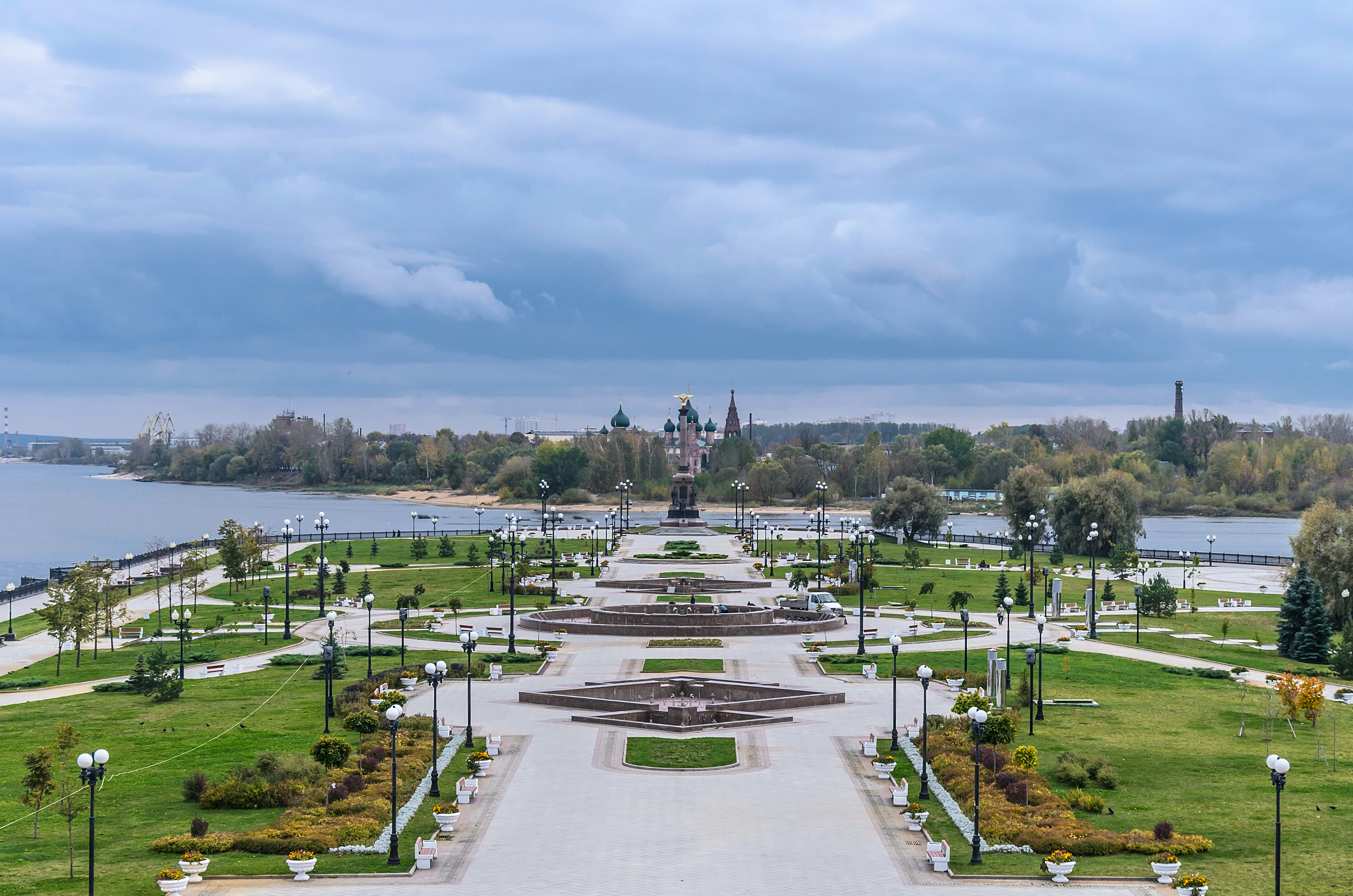 Strelka of Yaroslavl